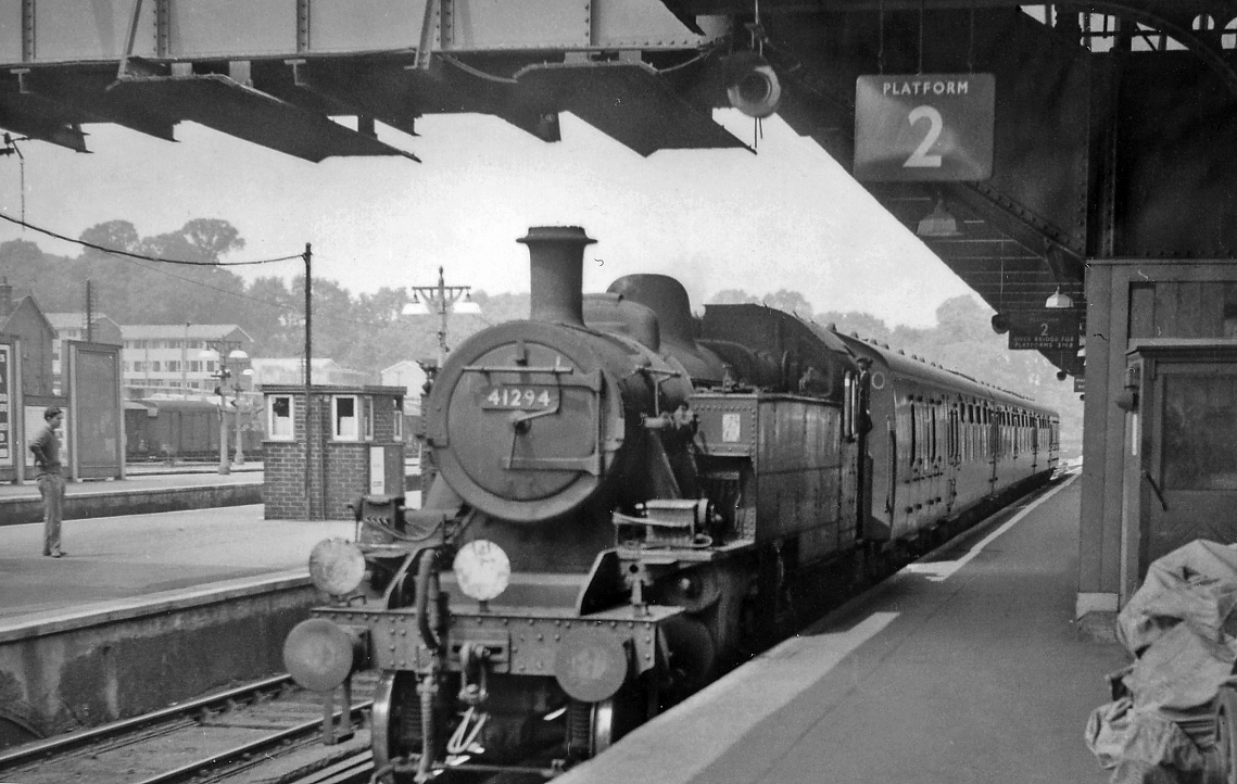 Horsham train at Guildford station. View northward, towards Woking and Waterloo, also Aldershot and Reading: ex-LSW Waterloo - Portsmouth main line, ex-SE&C Redhill Reading line; also Horsham (LB&SC from Shalford Junction to Christ's Hospital). The branch trains are now being worked by modern LMS-type 2MT 2-6-2Ts - here No. 41294 (built 10/51, withdrawn 9/66).